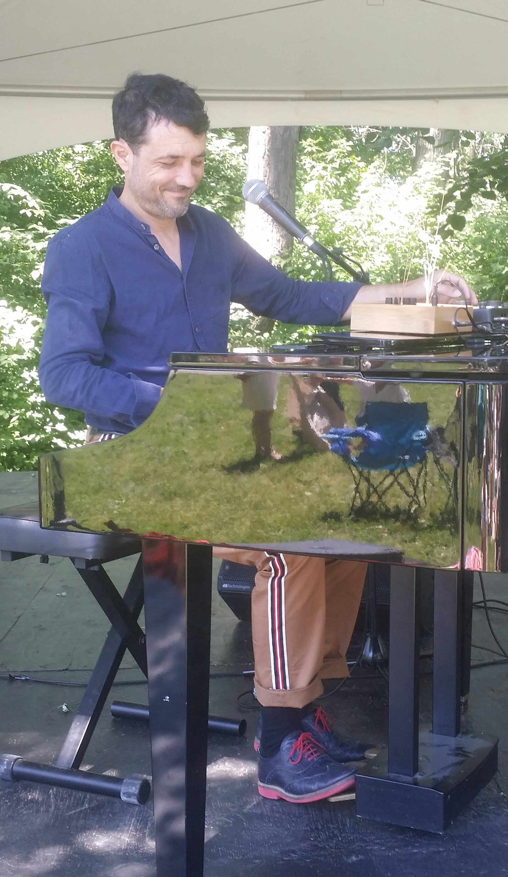 Albin De La Simone photographed in Montréal, Québec , Canada at the Montréal Botanical Gardens.